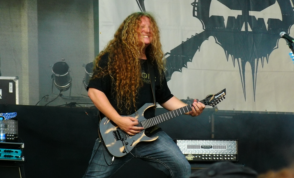 Dan Mongrain